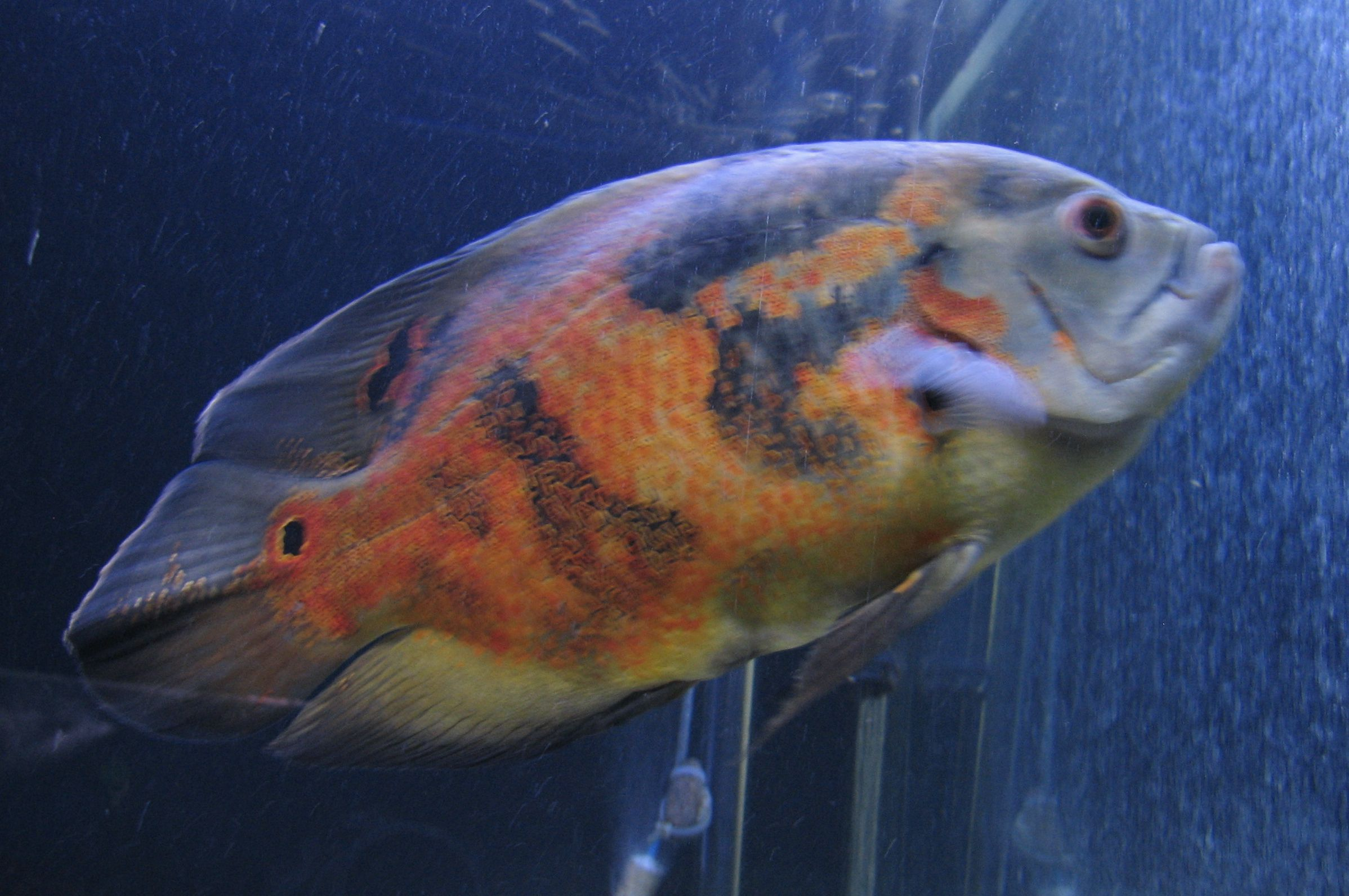 Astronotus ocellatus in aquarium of ZOO Brno, Czech Republic